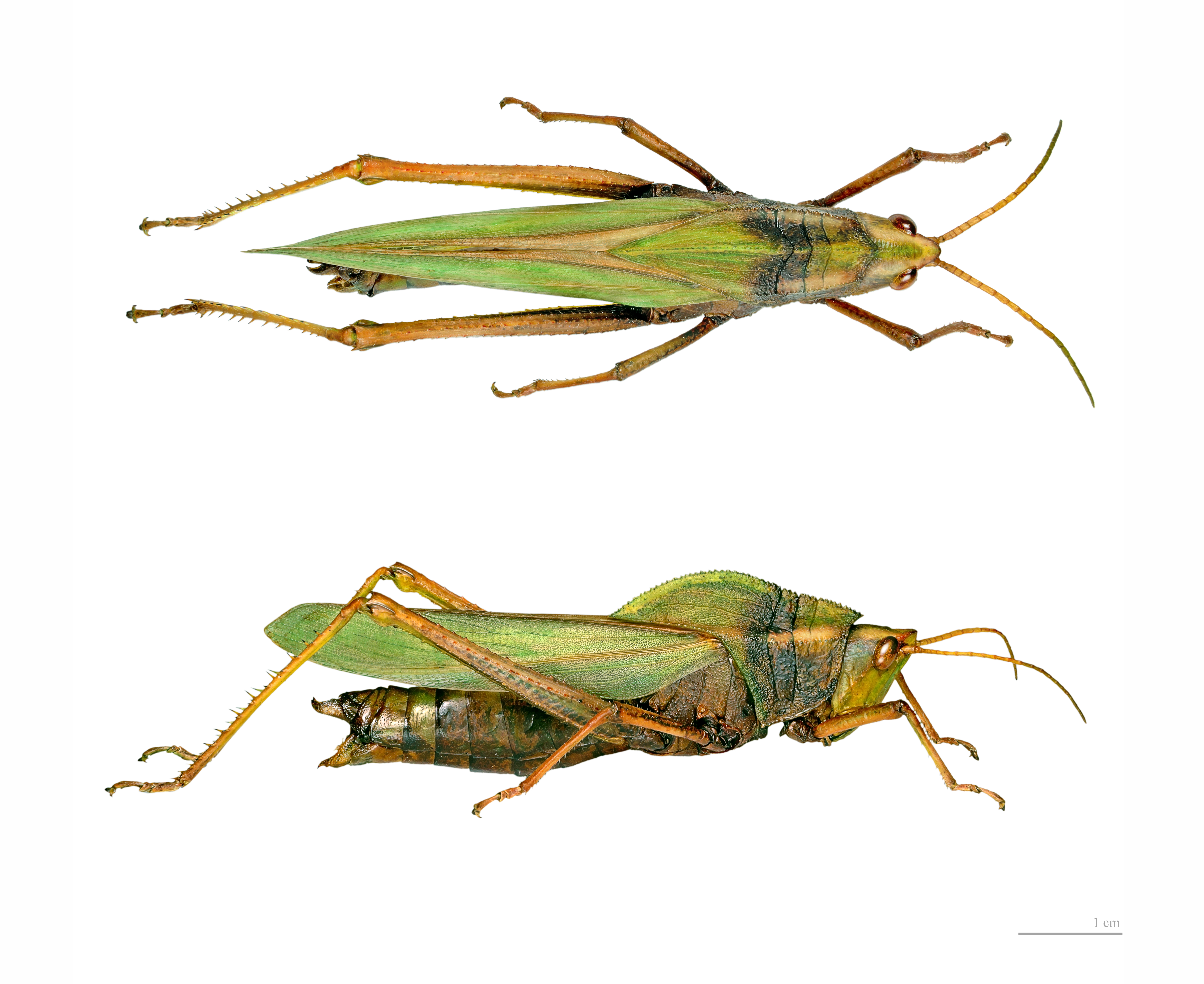 ♀ - Dorsal side Locality : Cacao, Crique Baguot, French Guiana.